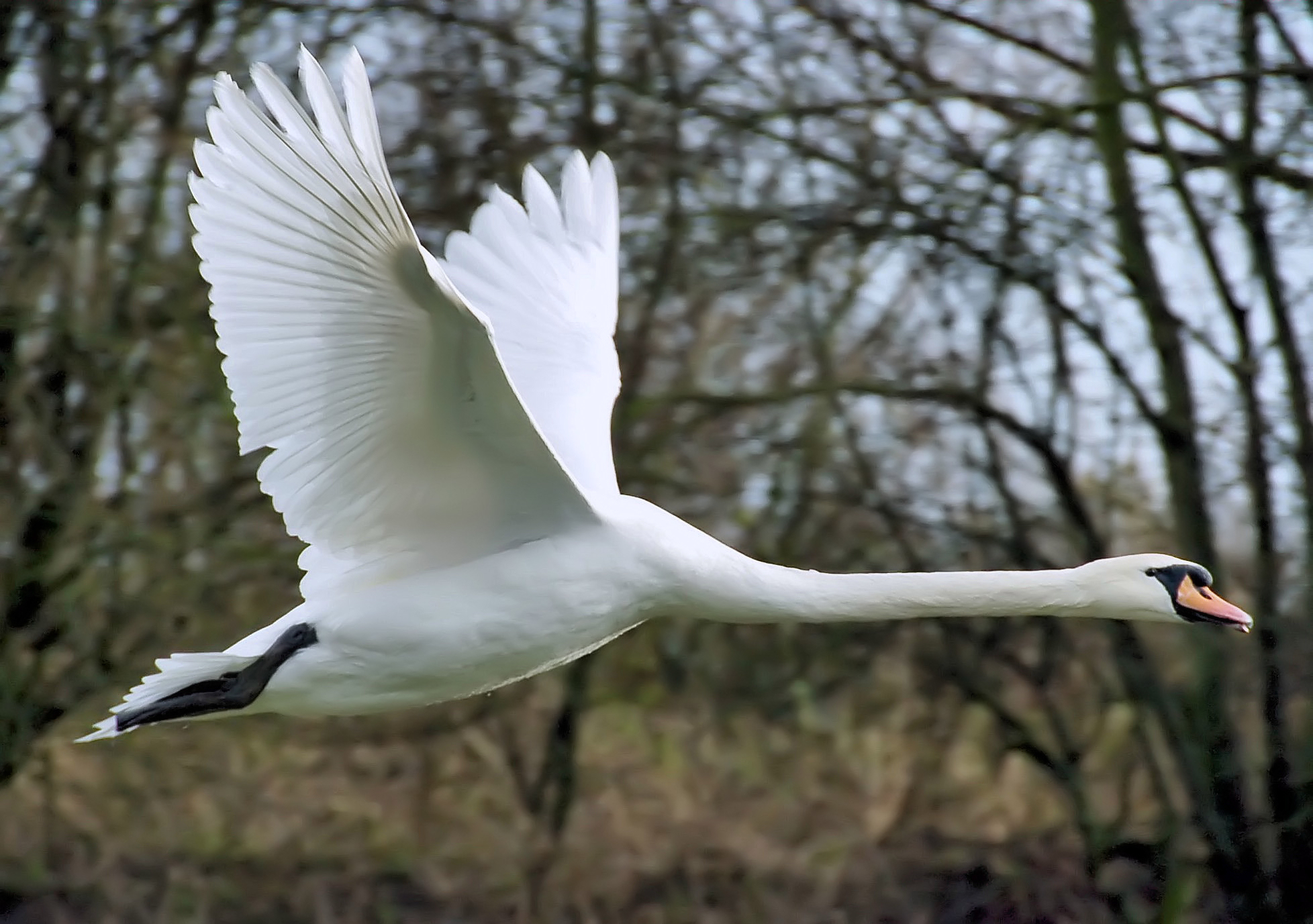 Mute Swan Cygnus olor flying at the Wildfowl and Wetlands Trust, Slimbridge, Gloucestershire, England.